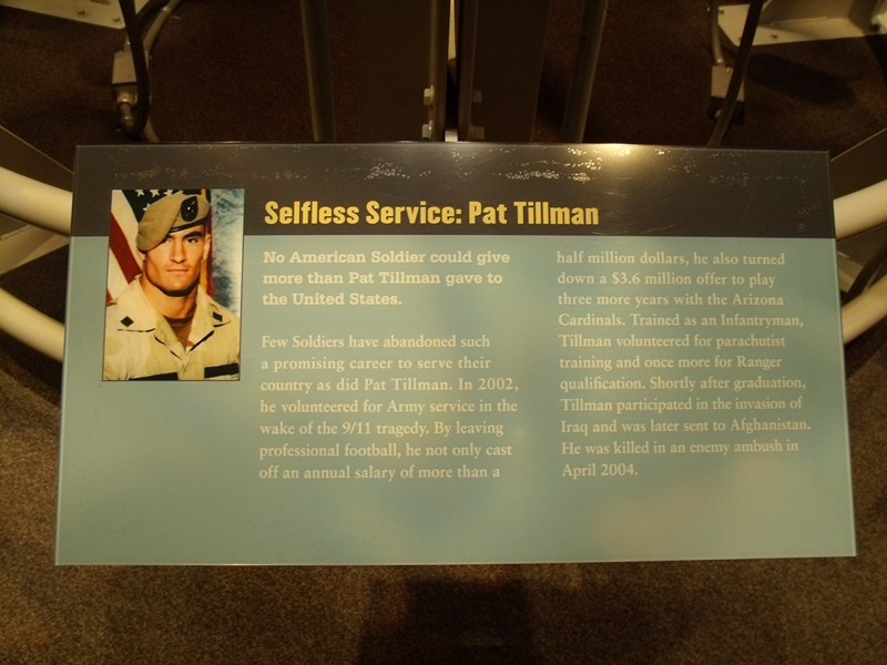 Misleading tribute to Pat Tillman at the National Infantry Museum.